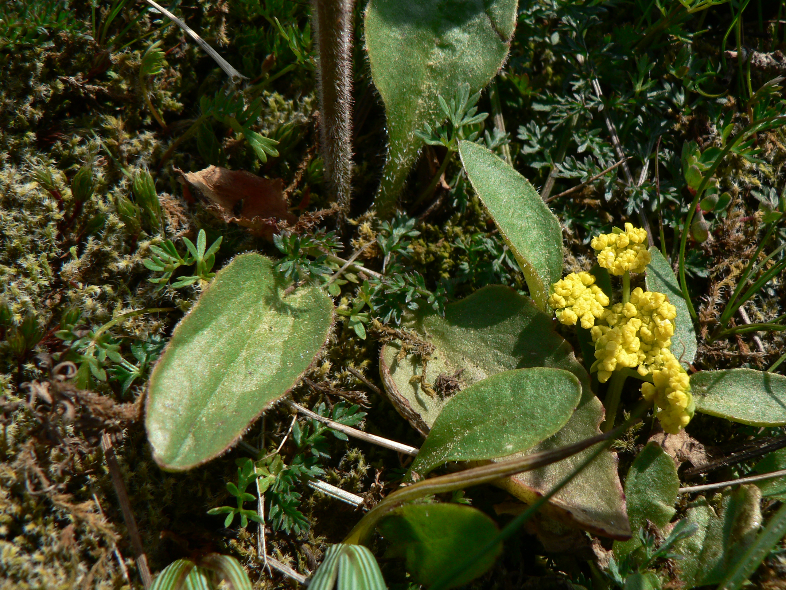 Wholeleaf Saxifrage